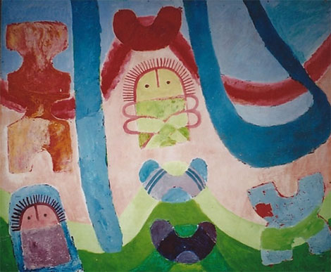 Acrylic on board, approx 100 x 130cm. Photo by Donald Locke. Painted in Georgetown, Guyana. Private Collection.